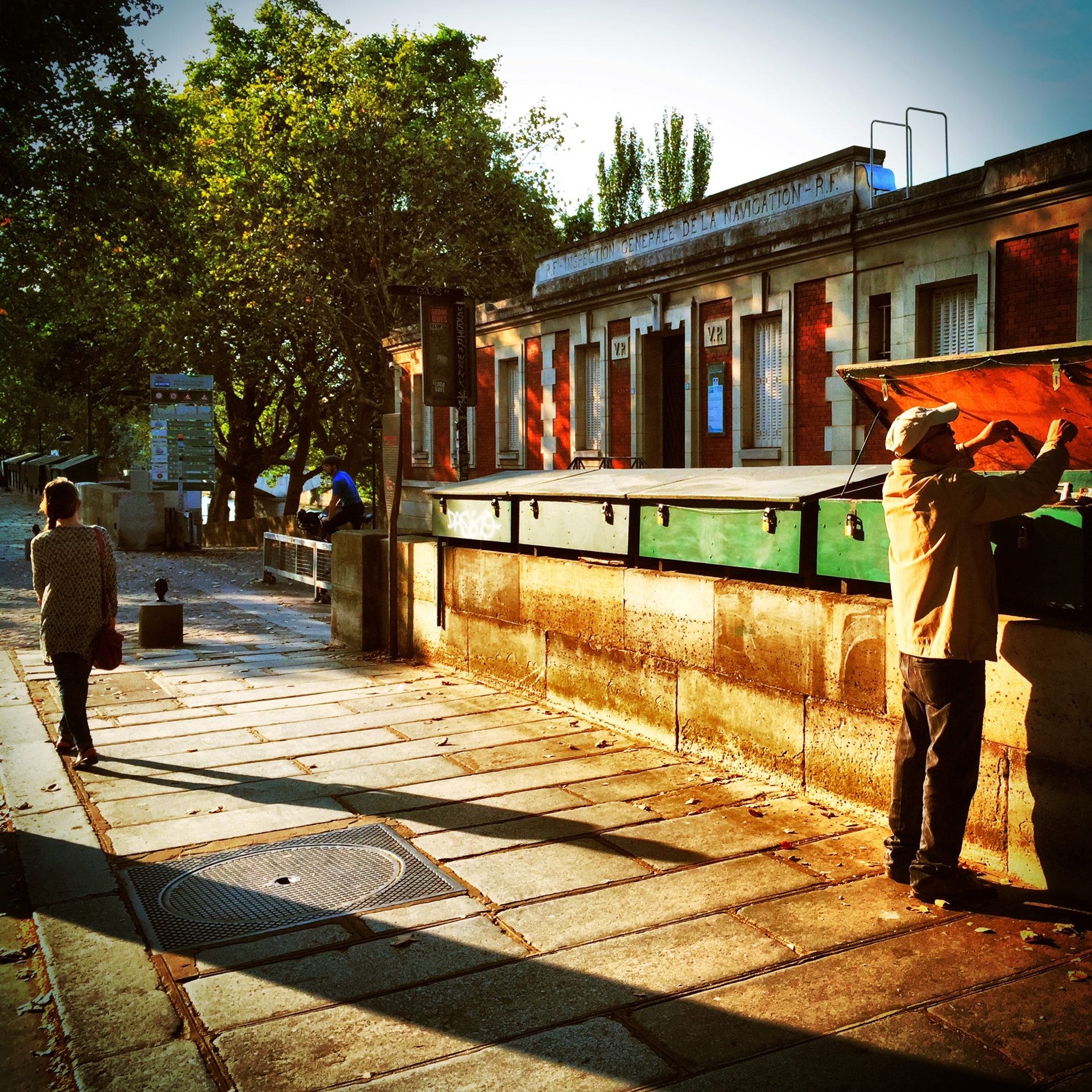 Riverside bouquinistes in Paris